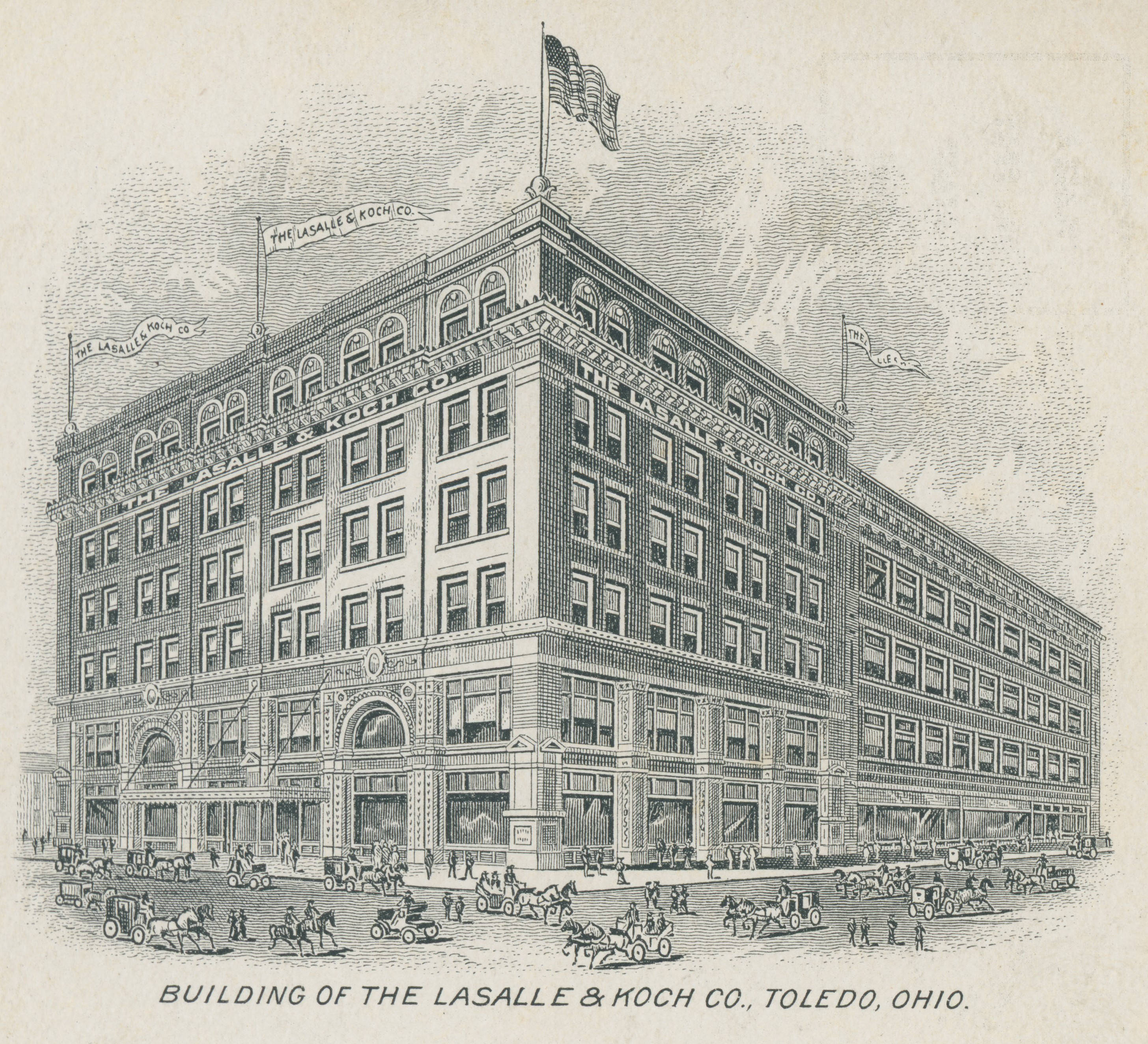 A postcard from the Ken Levin Toledo Postcard Collection, donated by Toledo resident, Ken Levin. Mr. Levin's collection was published by the Toledo Blade in a book entitled "You Will Do Better in Toledo: From Frogtown to Glass City," edited by Sandy and John R. Husman. This black and white postcard has a drawing of the building of the Lasalle and Koch Company at their location at the intersection of Jefferson Avenue and Superior Street in Toledo, Ohio.